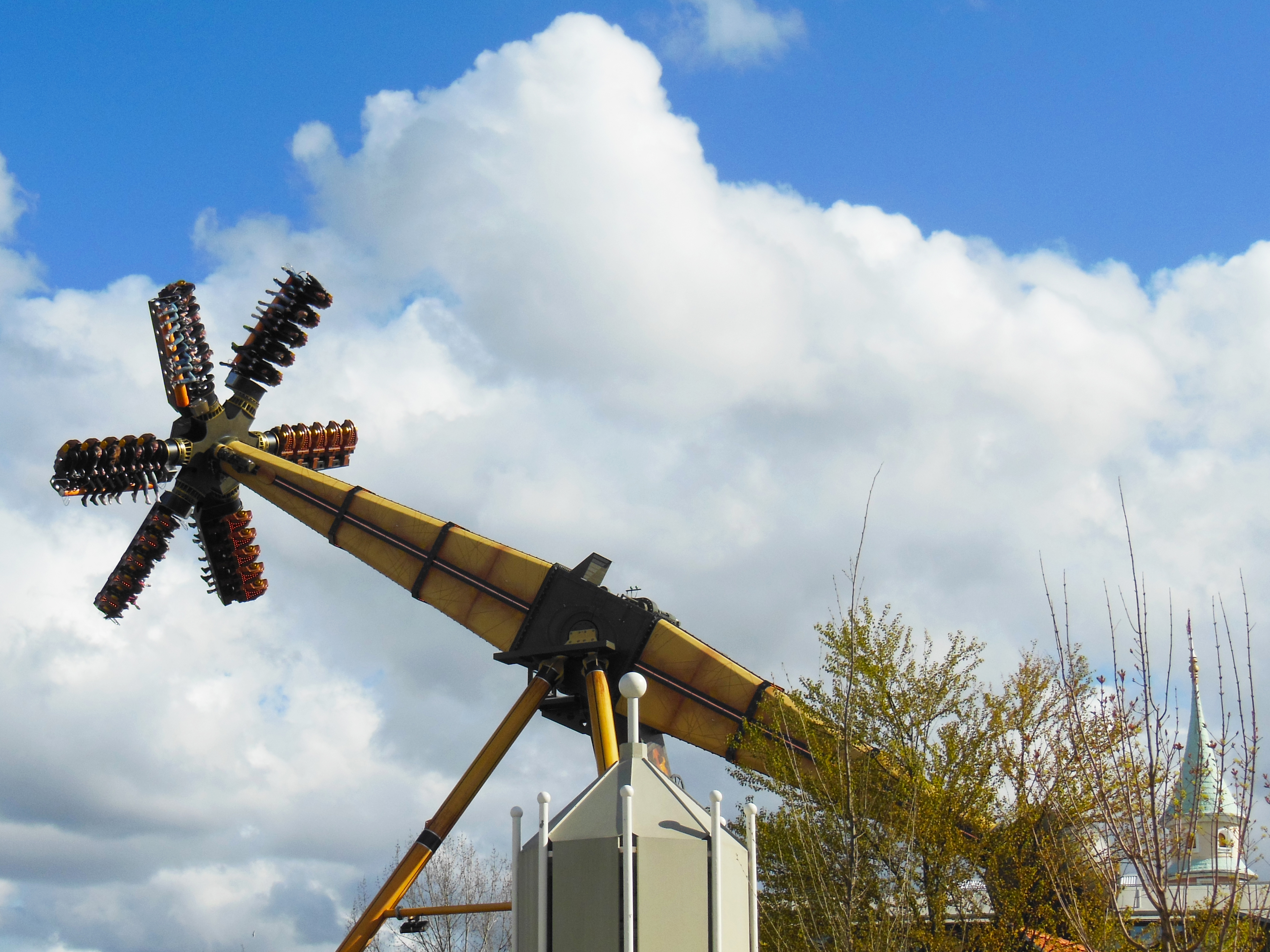 The ride Mechanica in the amusement park Liseberg in Gothenburg, Sweden.